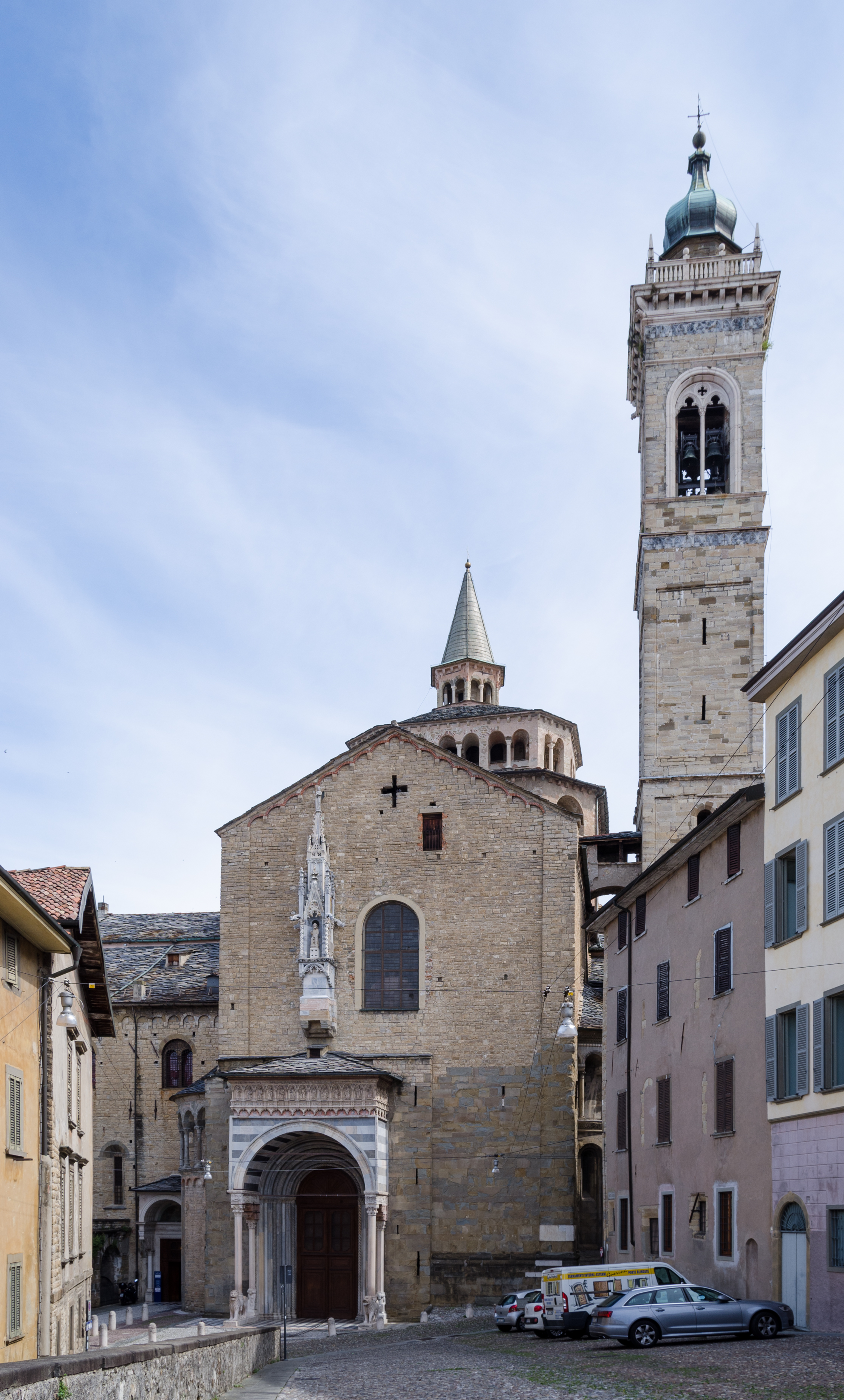 Bergamo (Lombardy, Italy) – upper city – Basilica of Santa Maria Maggiore – southern facade with tower